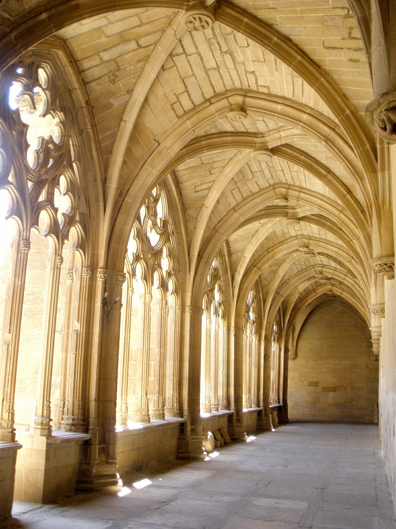 Cloister of the Church of Santa María, Los Arcos (Navarra)